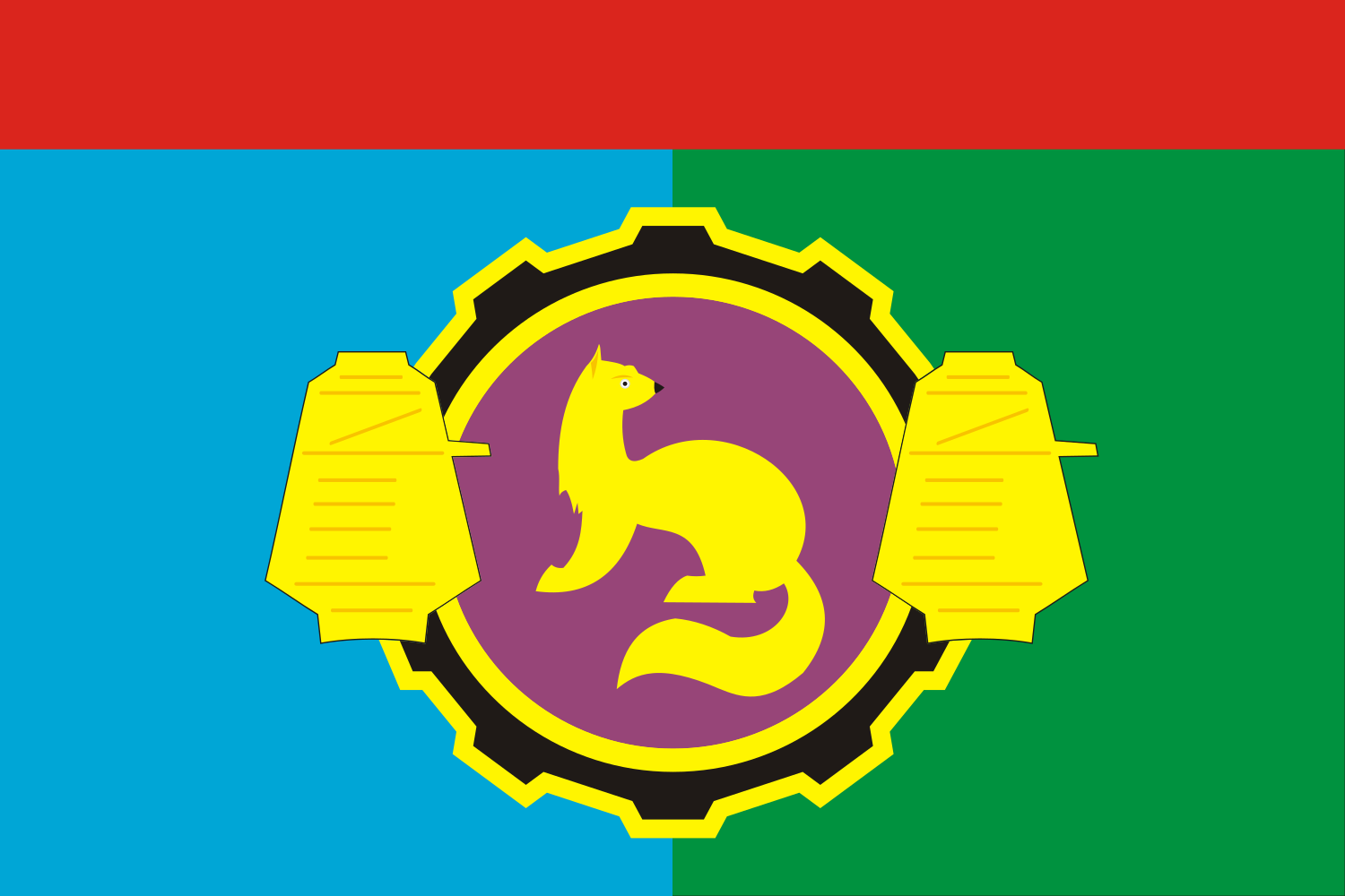 Flag of Pushkinsky rayon, Moscow oblast, Russia